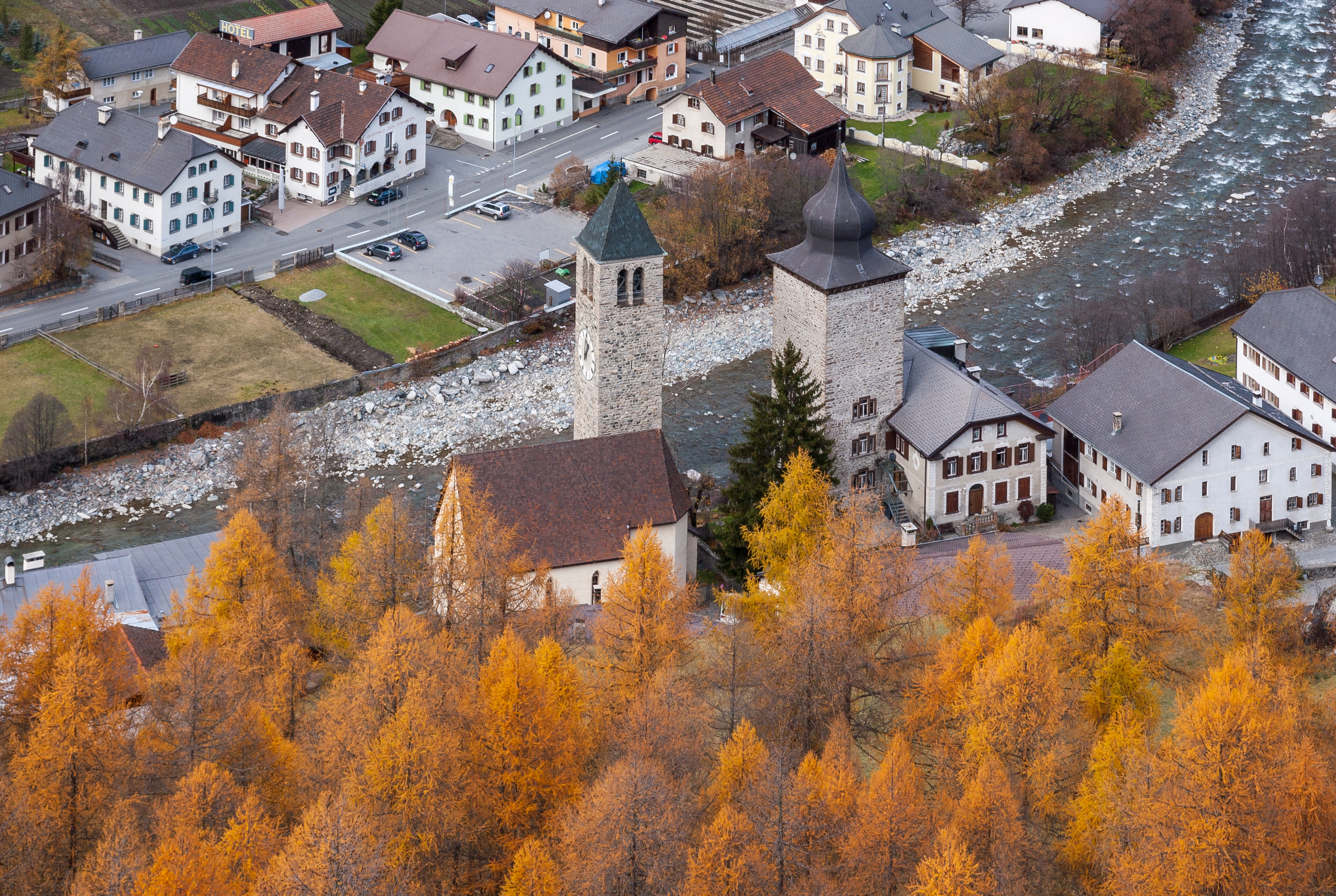 Planta Tower and Reformed Church in Susch, Engadina.